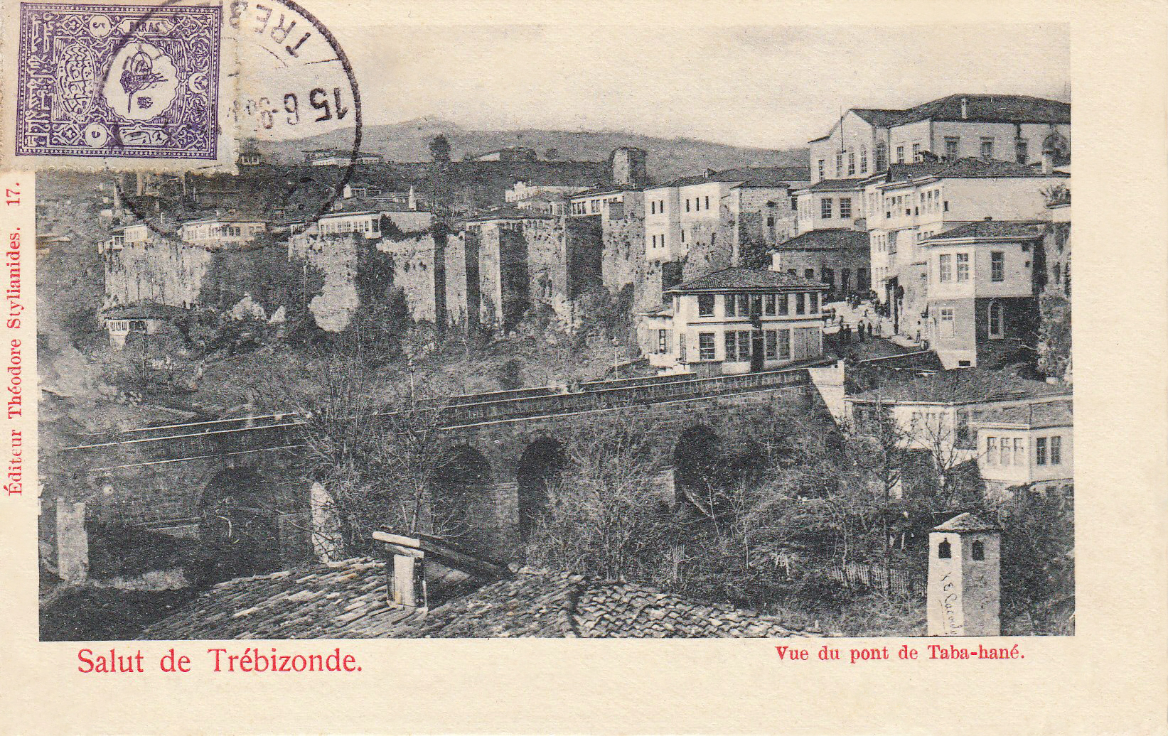 A view of the bridge to the east of the old city of Trabzon, Turkey.